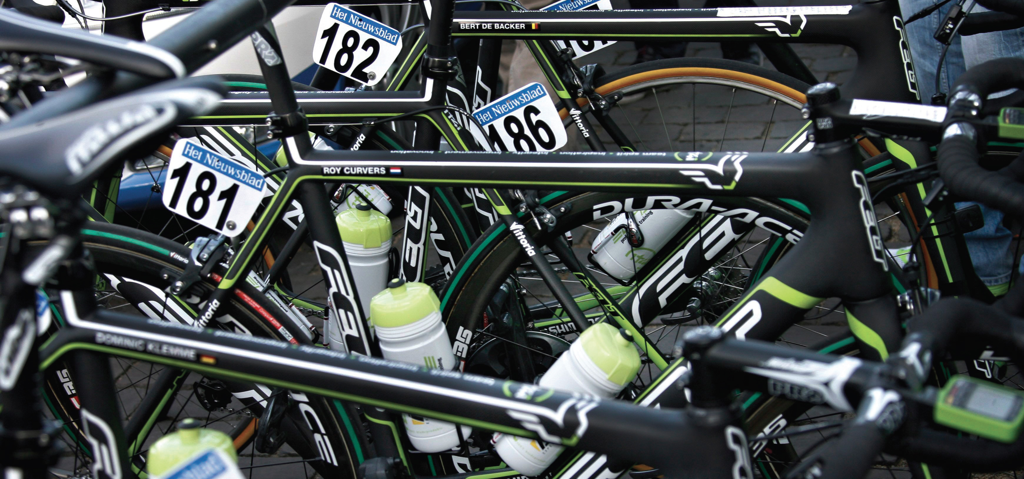 Felt F1 Team Bike